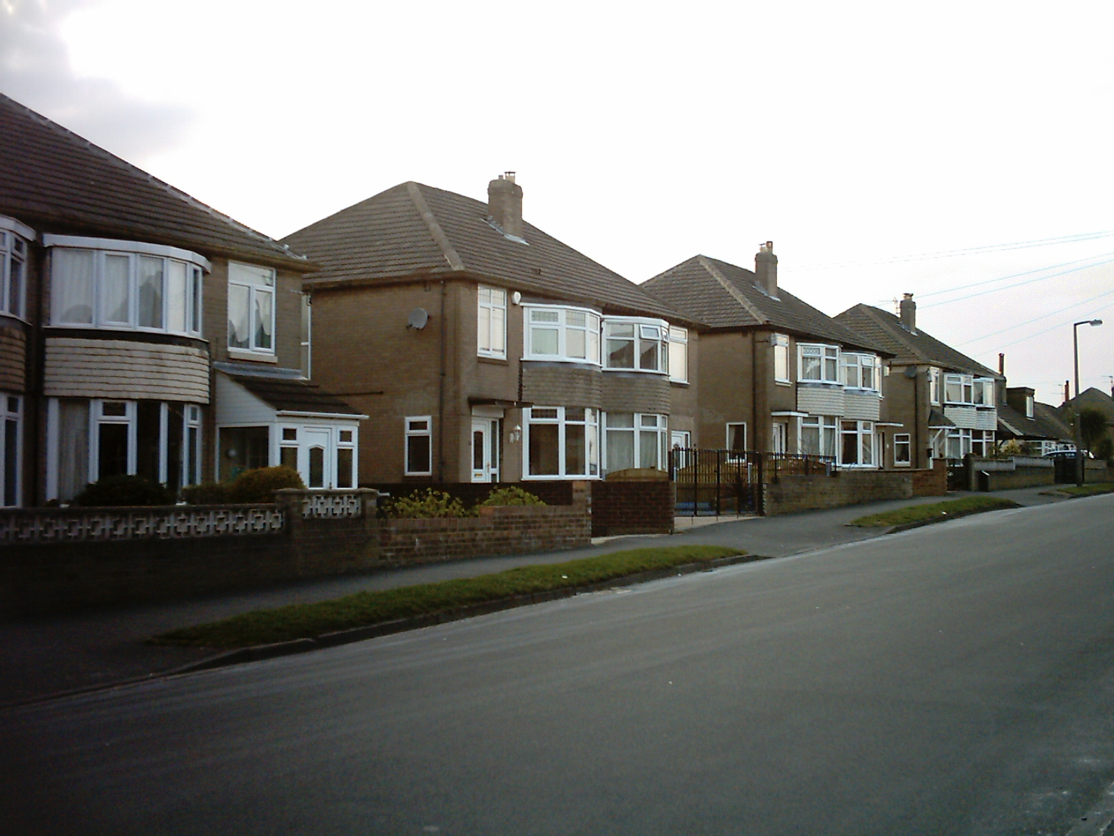 Houses on Kingswear Crescent in Austhorpe, Leeds. This photograph was taken on the late afternoon of the 1st April 2009.